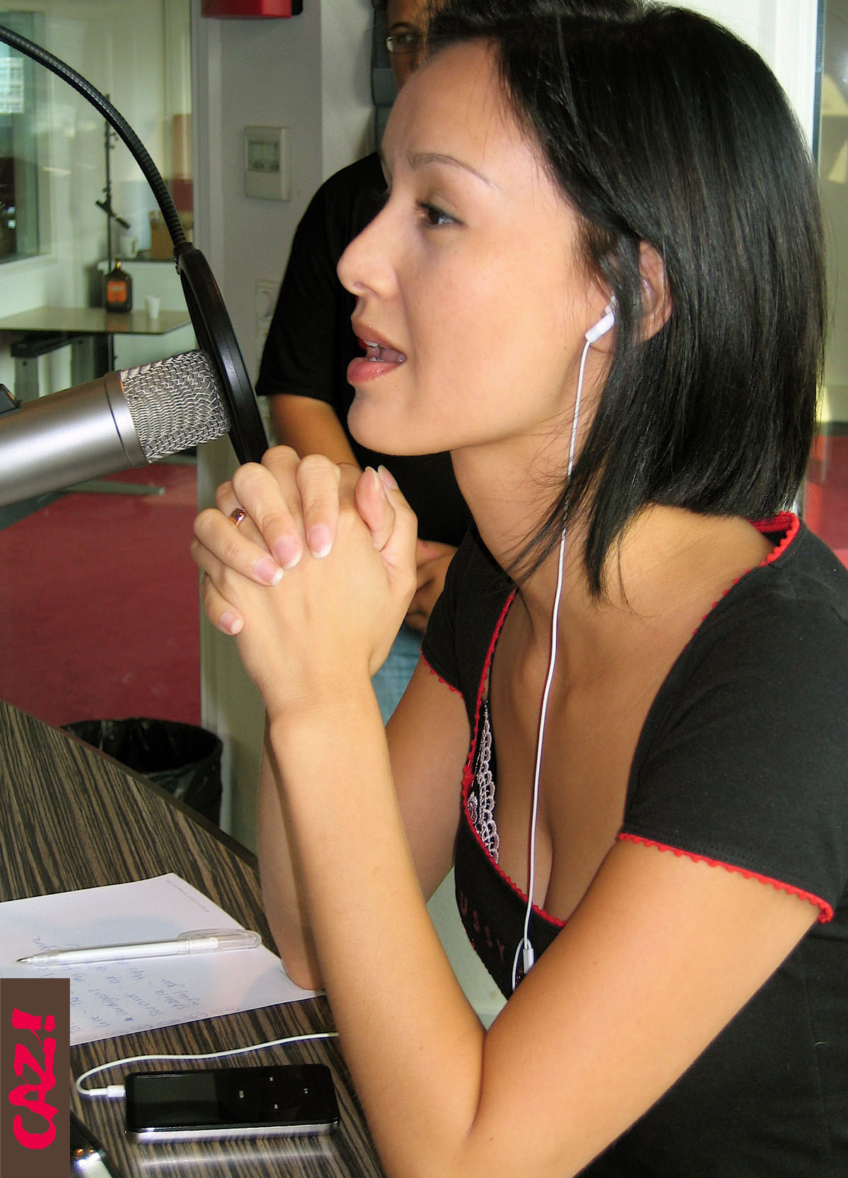 Jennifer on the iCaz party